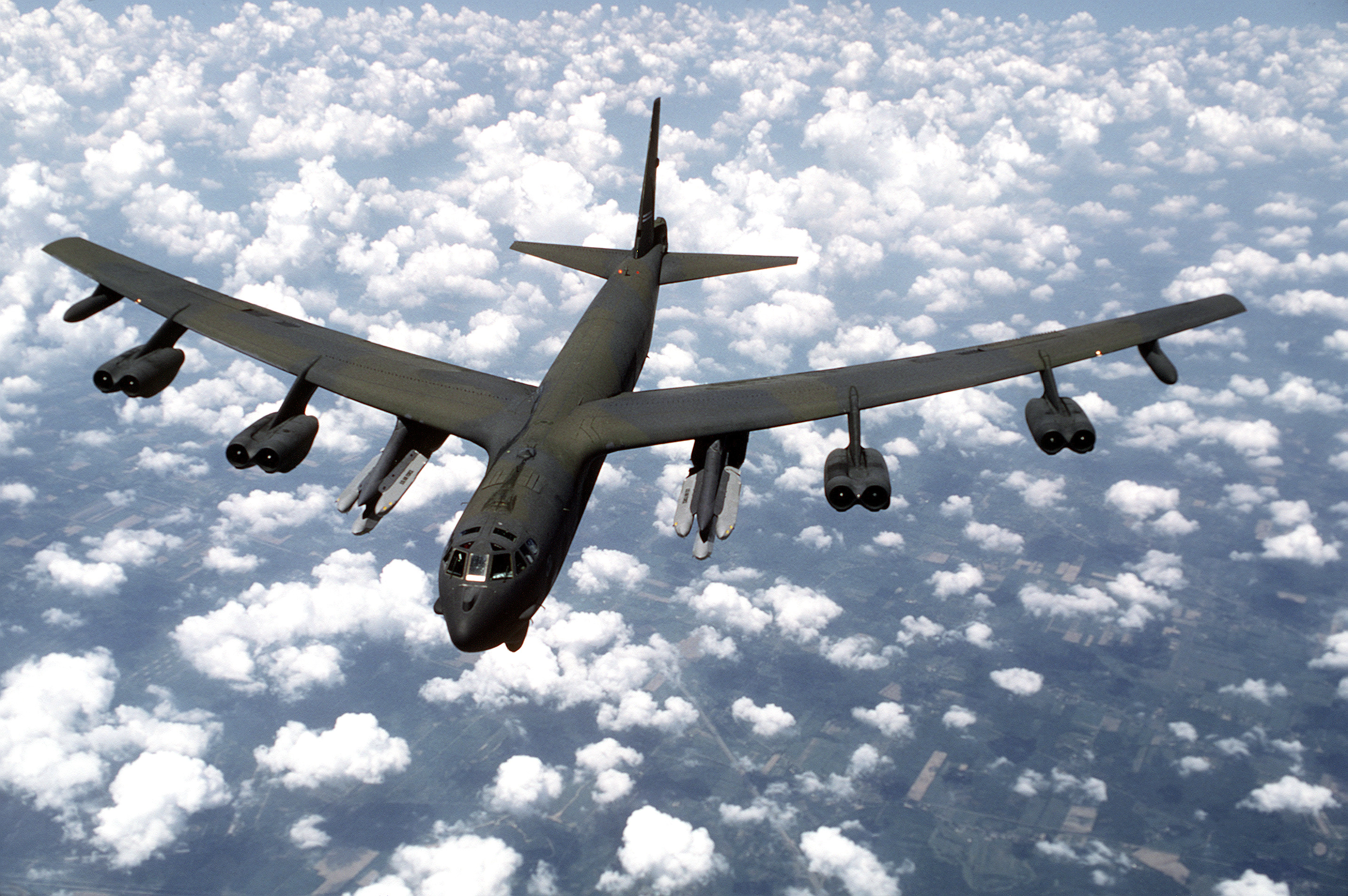 An air-to-air front view of a B-52G Stratofortress aircraft from the 416th Bombardment Wing armed with AGM-86B Air-Launched Cruise Missiles (ALCMs).